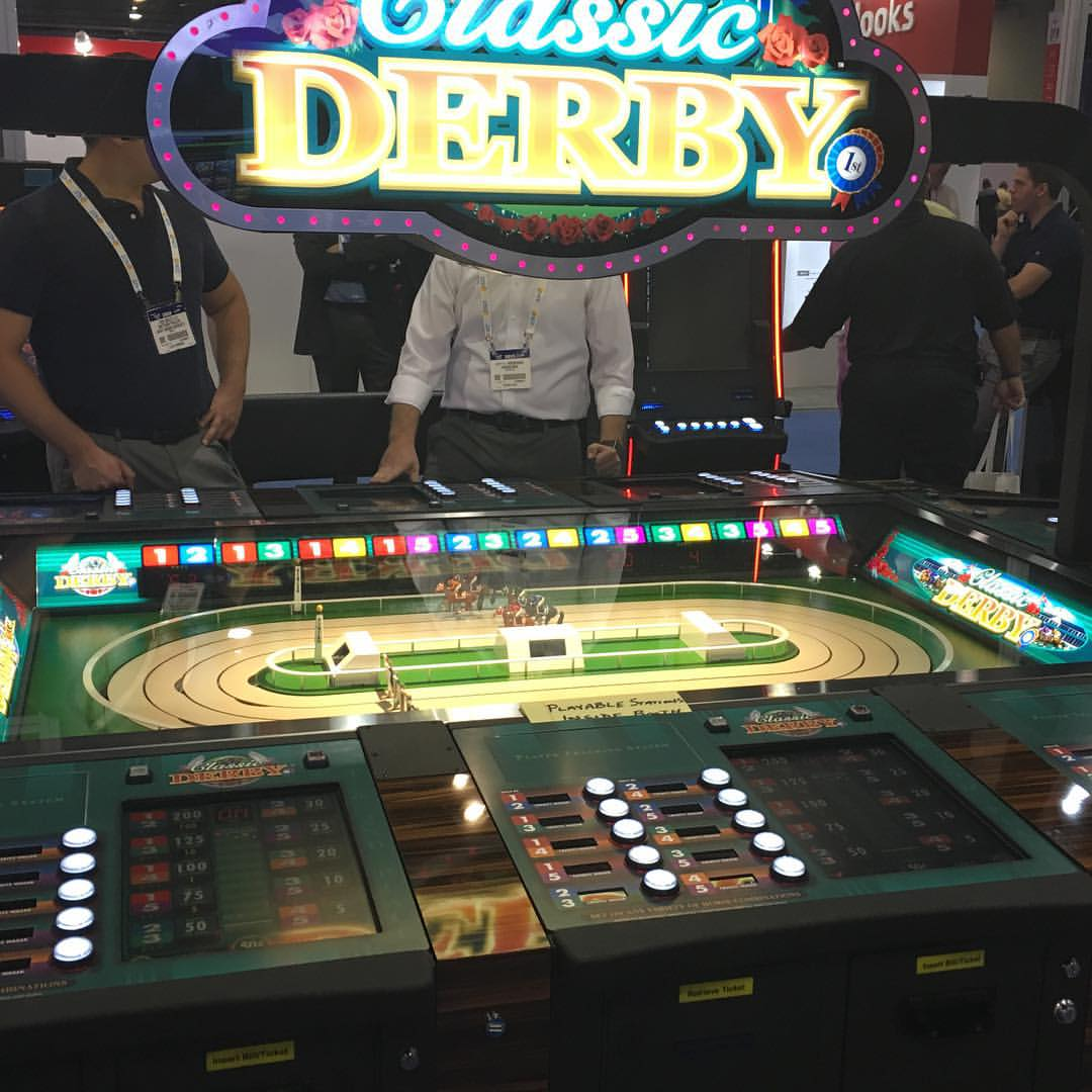 New Version of Sigma Derby on floor of G2E Conference in Las Vegas, NV 2015-9-29